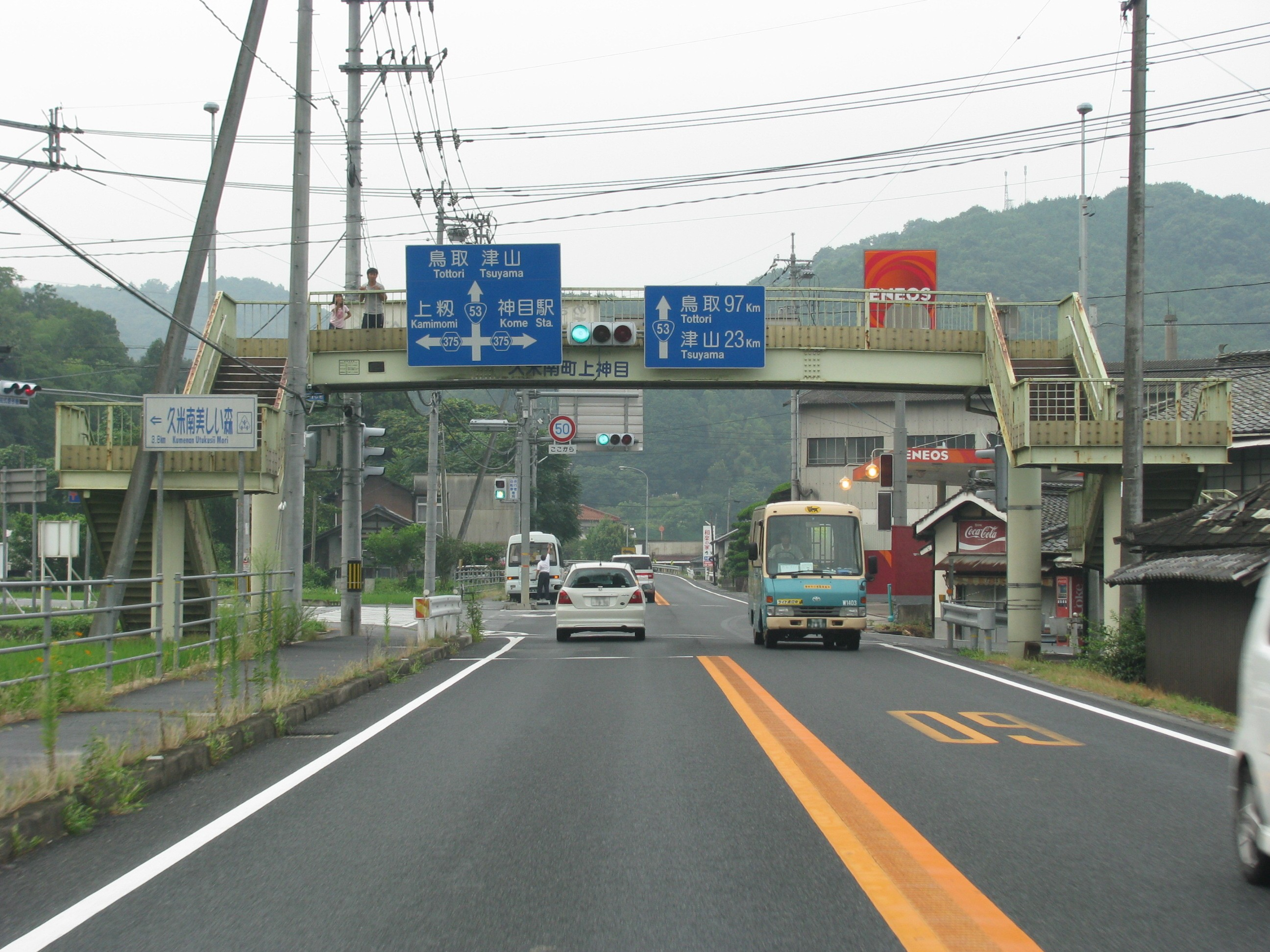 The Japan National Route 53. This place is Kumenan, Kume District, Okayama, Japan.